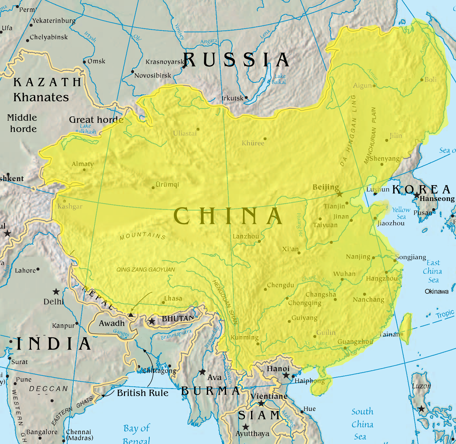 Map of Qing dynasty in 1765.